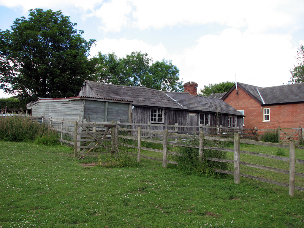 The only surviving railway navvy housing in Britain